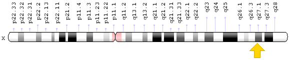 Cytogenetic Location of F9 gene (coagulation factor IX): Xq27.1, which is the long (q) arm of the X chromosome at position 27.1 Molecular Location: base pairs 139,530,720 to 139,563,459 on the X chromosome (Homo sapiens Annotation Release 108, GRCh38.p7) (NCBI).